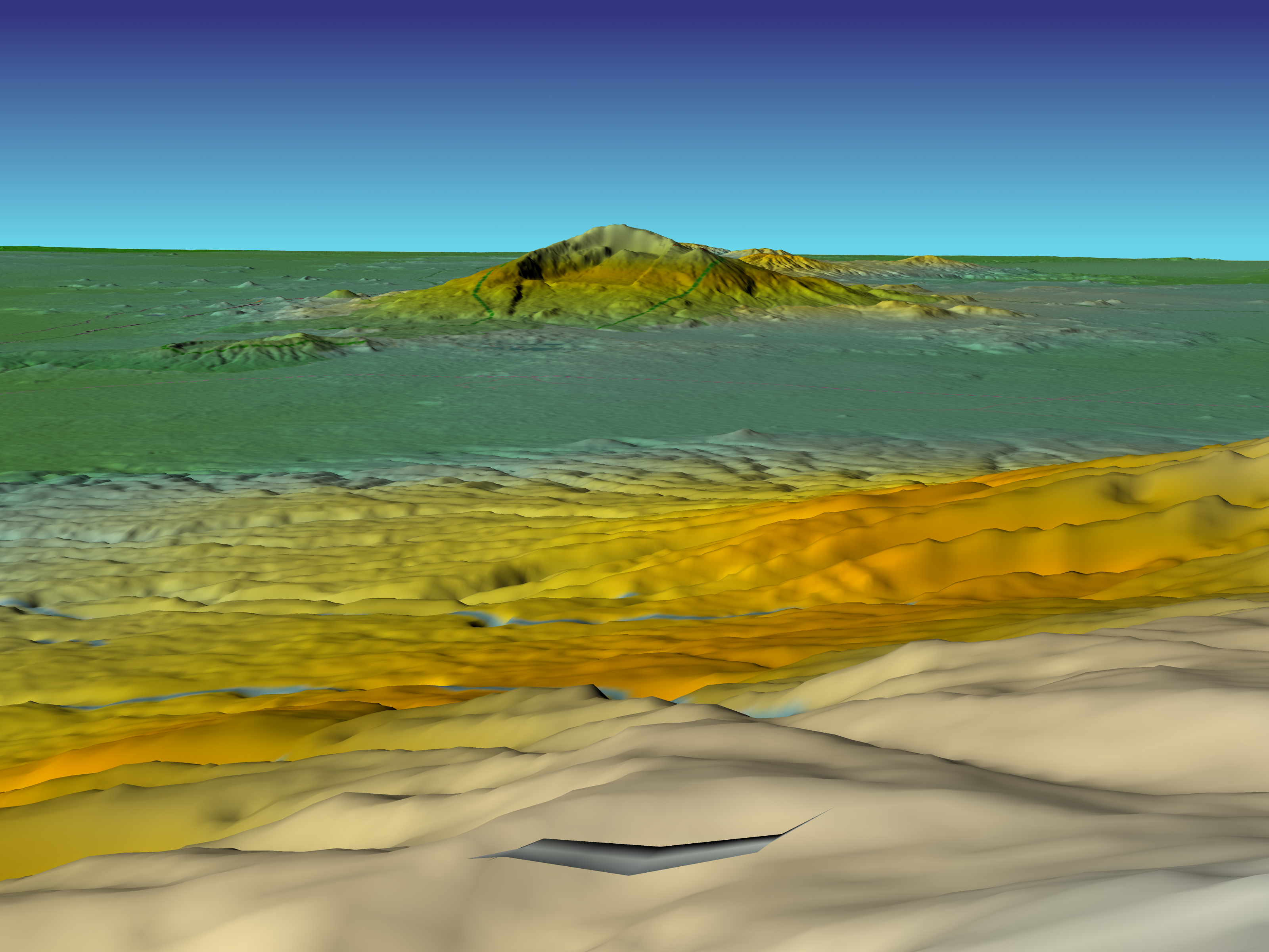 Mount Meru as seen from Kilimanjaro, computer image generated using TruFlite